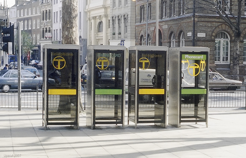 A group of KX100 kiosks, during the changeover from smoked glass to clear.